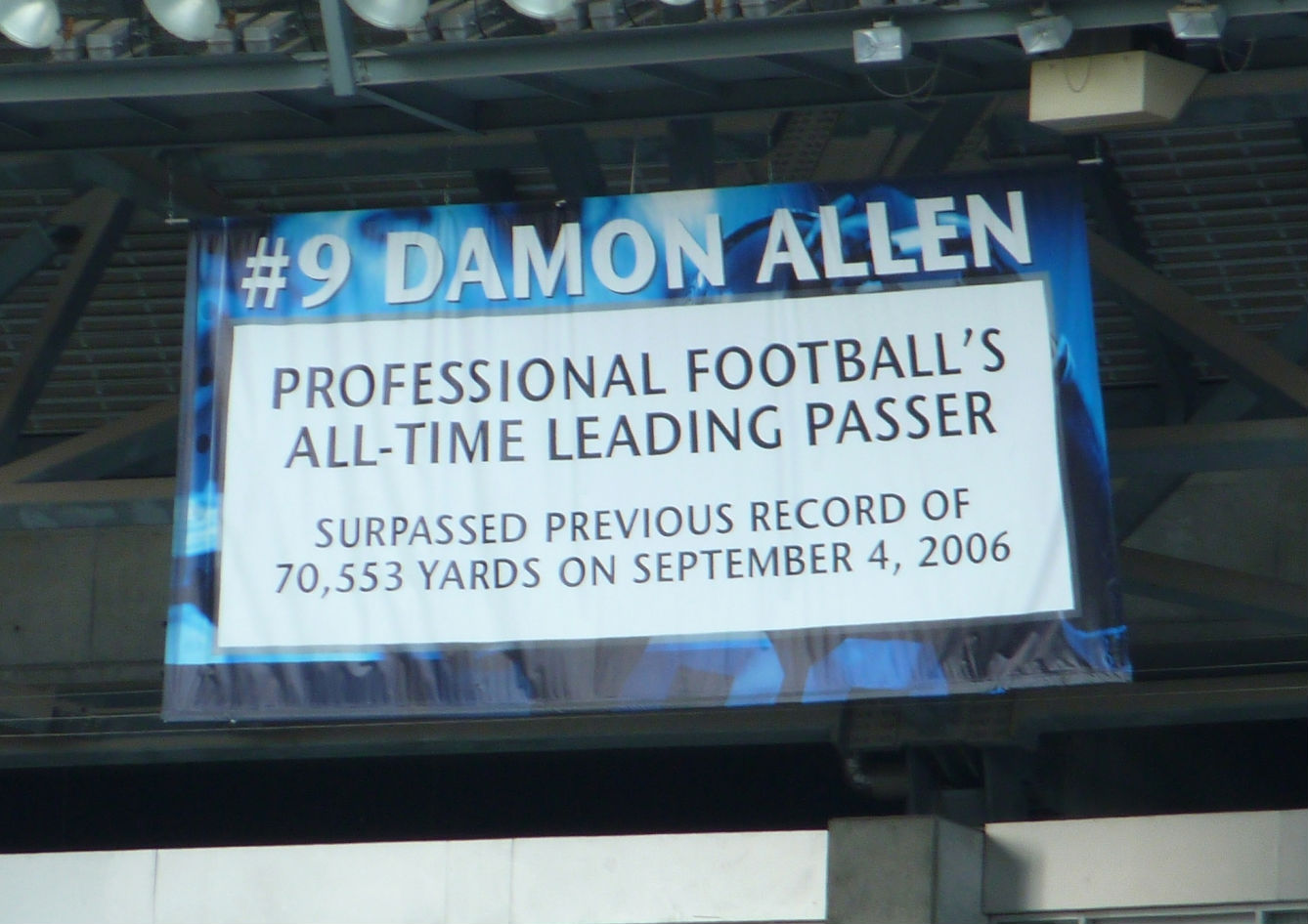 Banner hanging in the Rogers Centre commemorating the All-Time Professional Passing Statistics (CFL/NFL)-record breaking pass of Damon Allen.